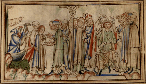 Edward's reception in England and his coronation